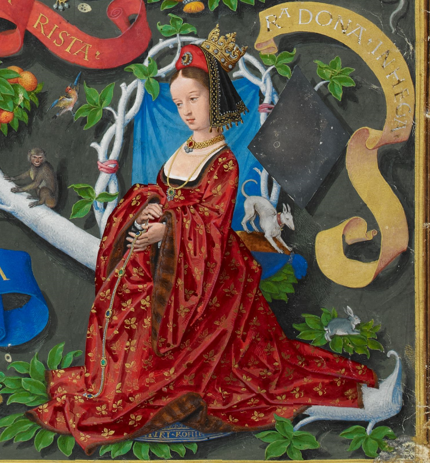 Onega, first queen of Pamplona through her marriage with Iñigo Arista